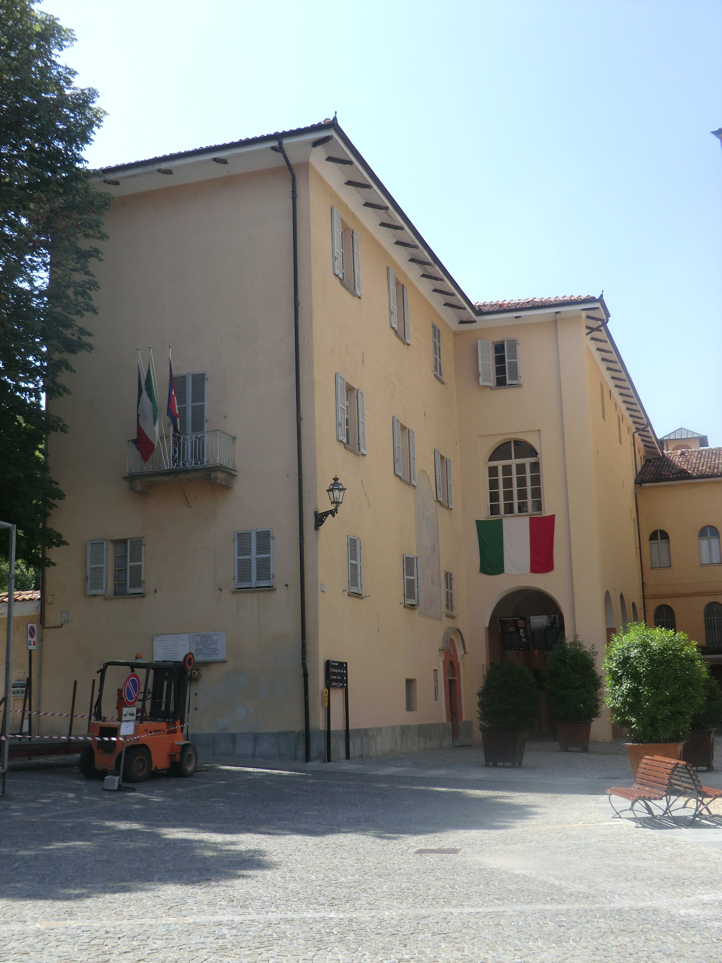 Dogliani: city hall.